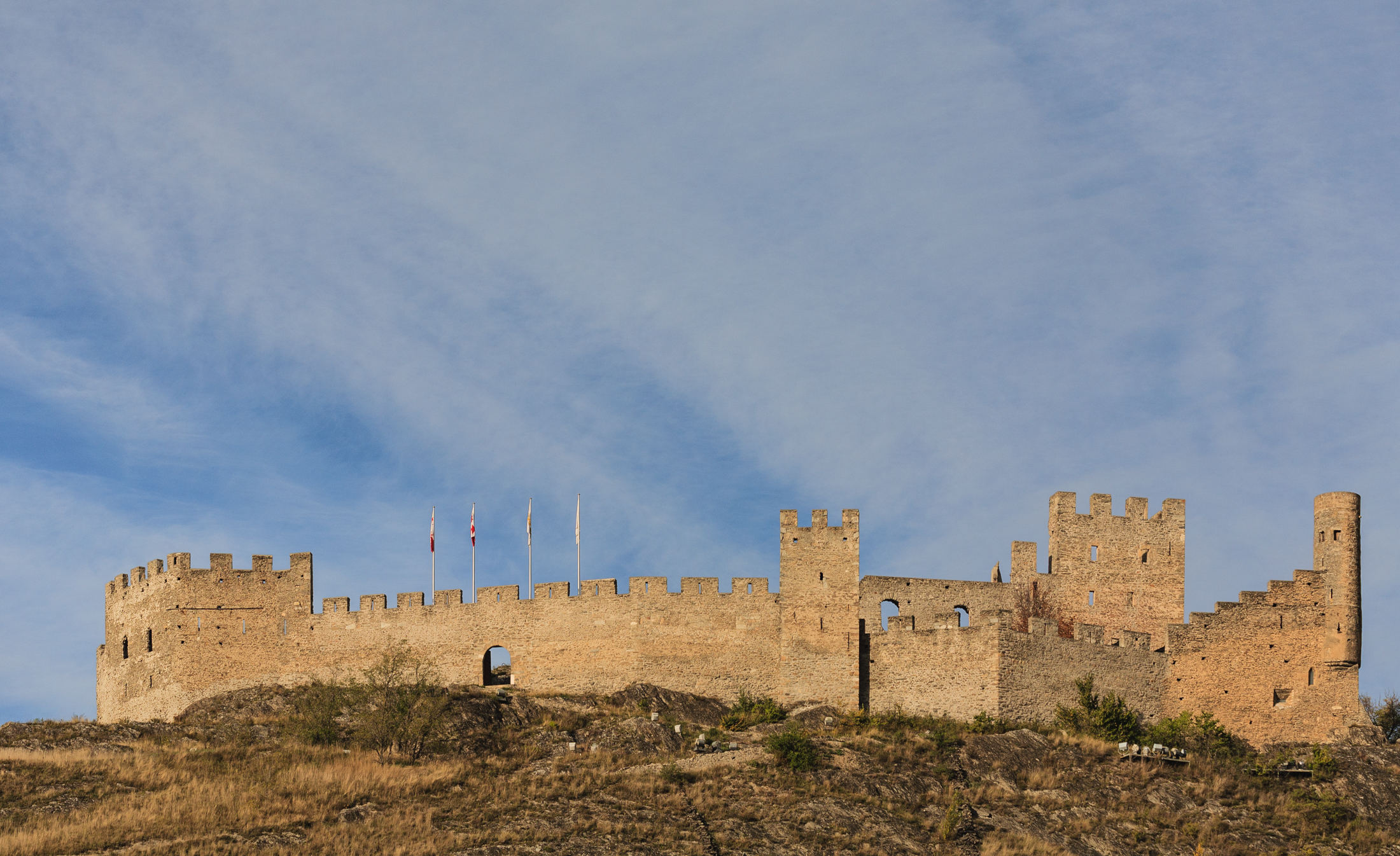 Tourbillon Castle, in the city of Sion, canton of Valais in Switzerland.